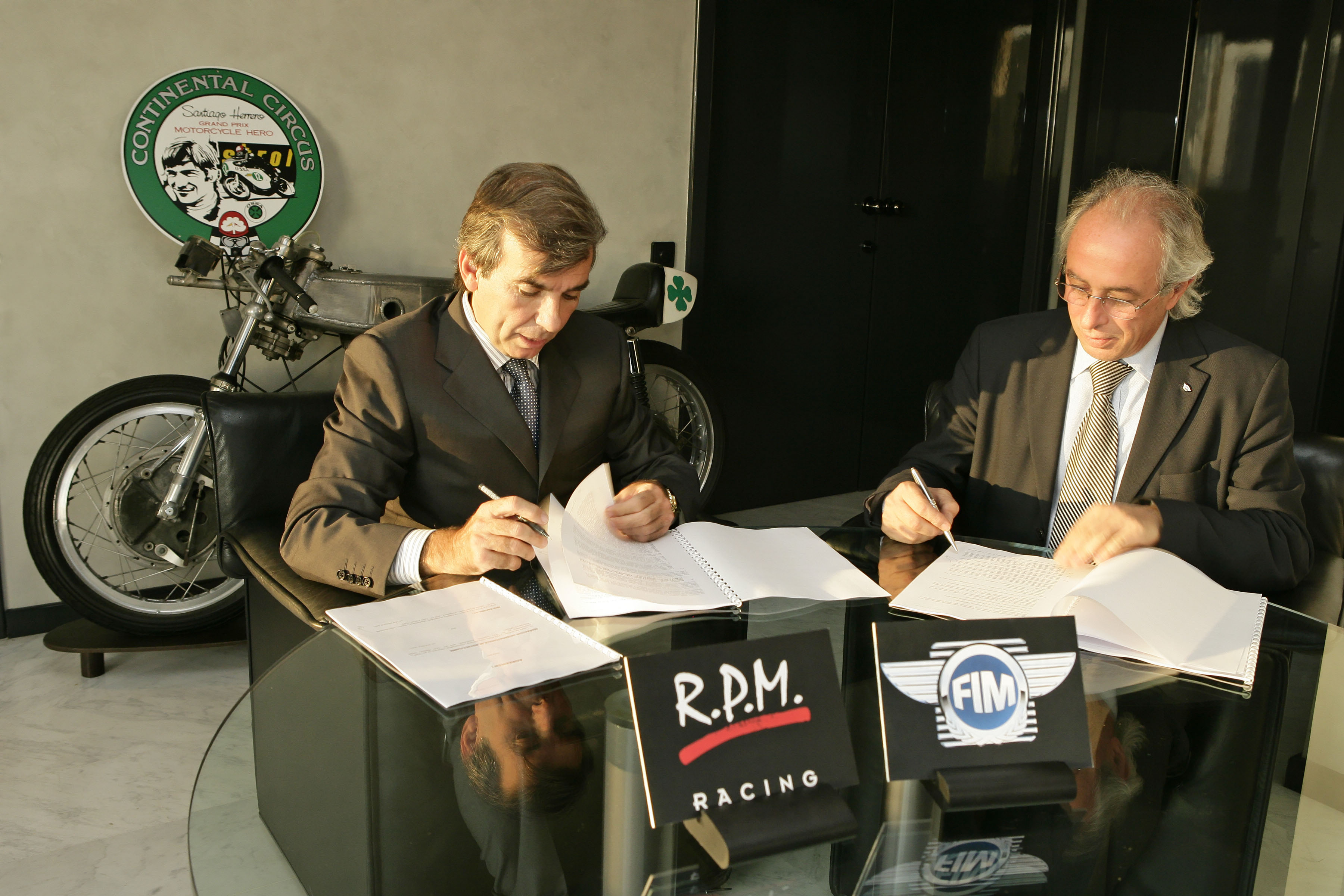 Jaime Alguersuari y Vito Ippolito